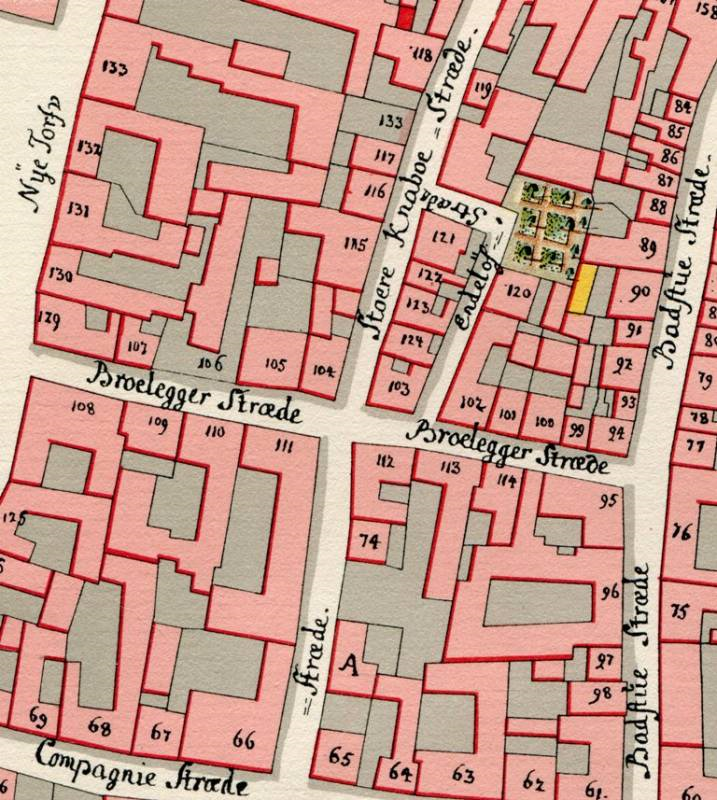 Brolæggerstræde as seen og Gedde's district map of Copenhagen, Denmark